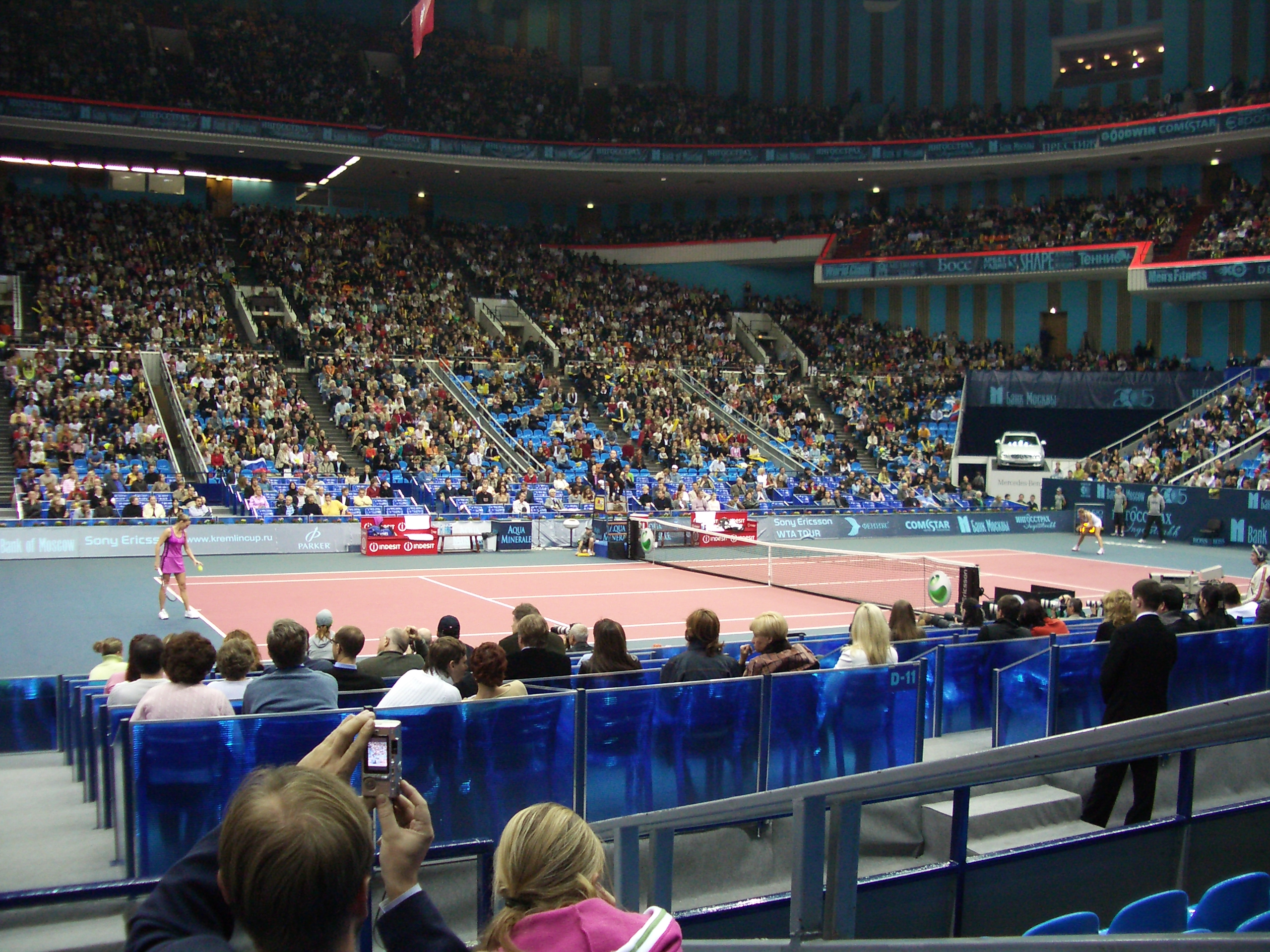 Tennis, Kremlin Cup, Moscow 2005, semifinal match